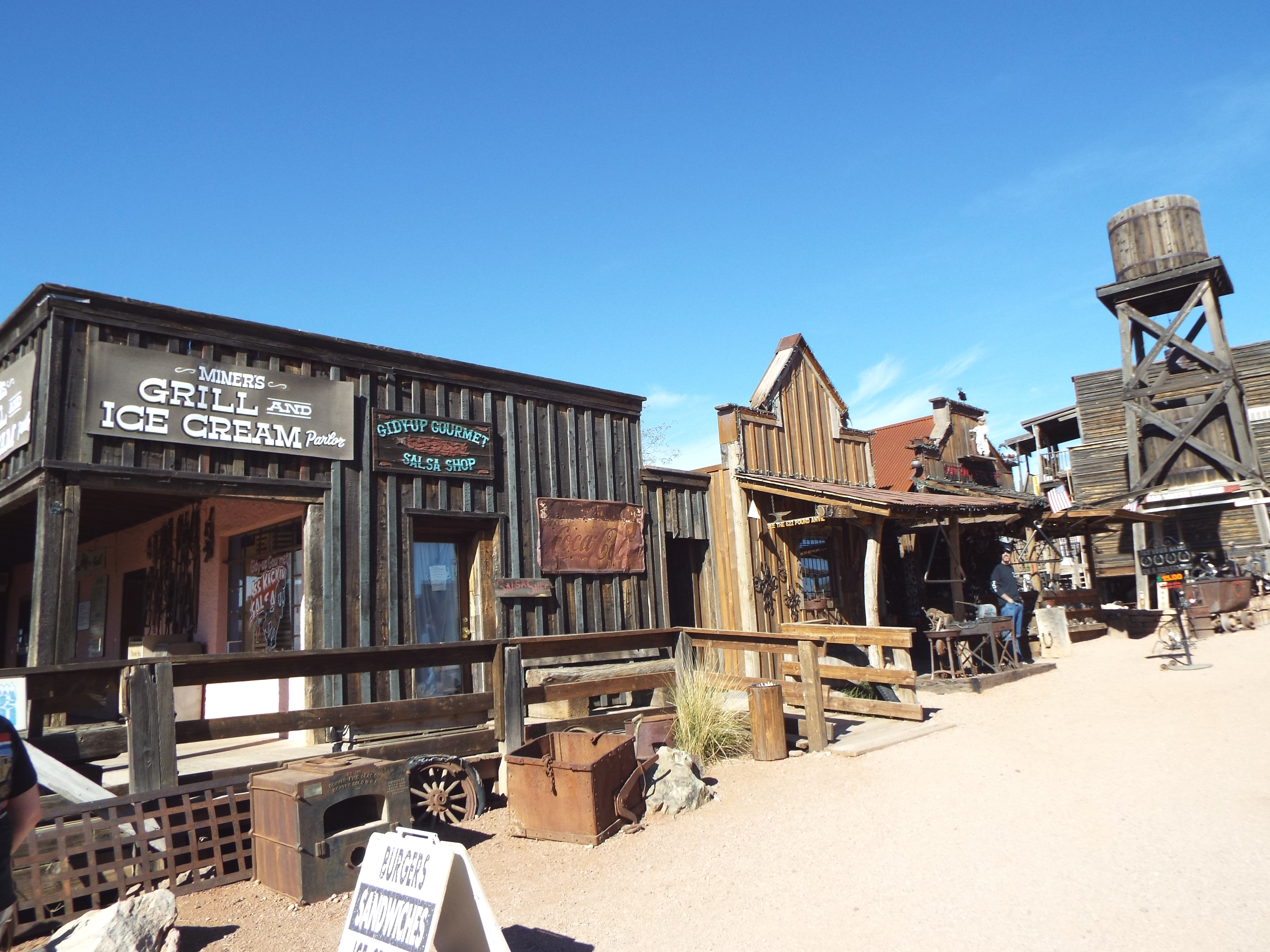 A different view of Goldfield’s Main Street. Goldfield is a ghost town located at 4650 N, Mammoth Mine Road in the town of Apache Junction, Az.